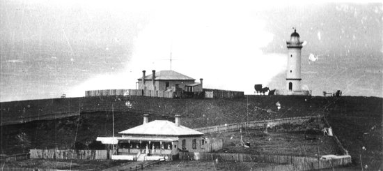 The Kiama Lighthouse with keepers' cottages circa 1926